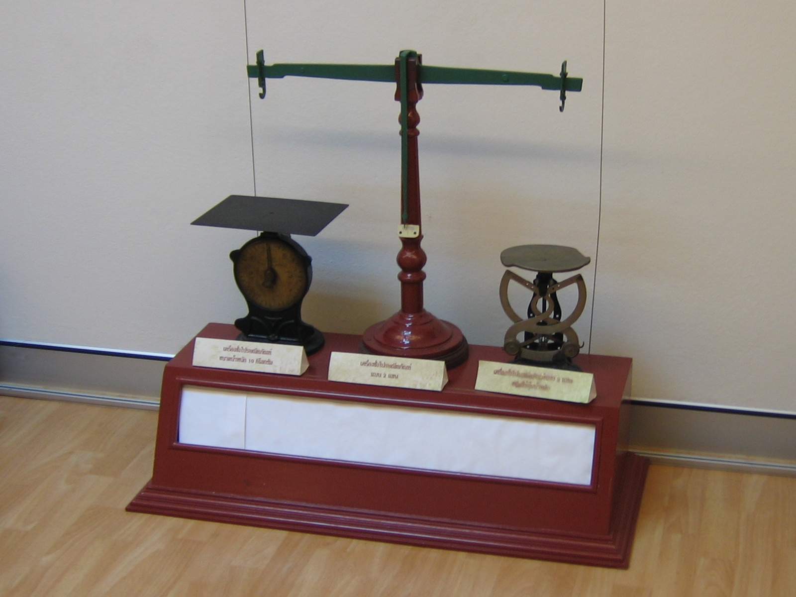 Three different types of old weighing scales once used by post office in Thailand. From Philately Museum, Phaya Thai District, Bangkok, Thailand.